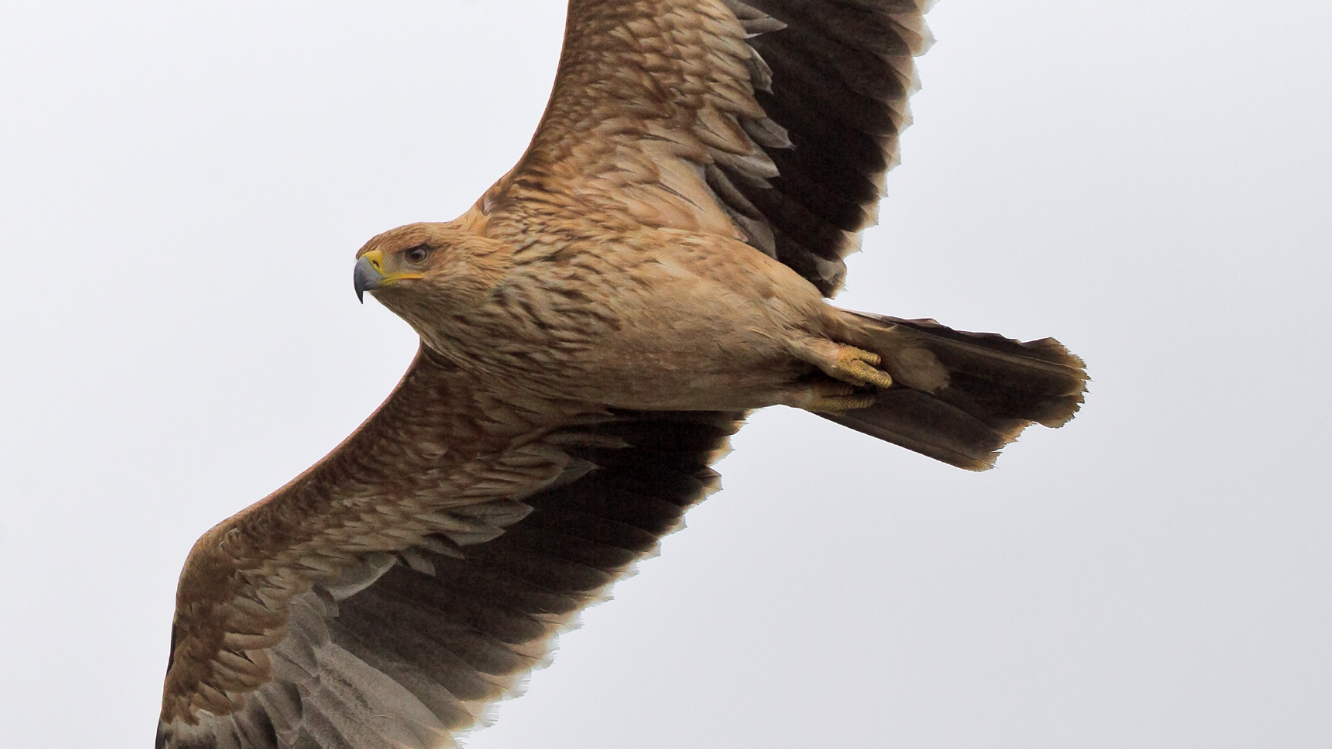 Aquila adalberti, a flying juvenile